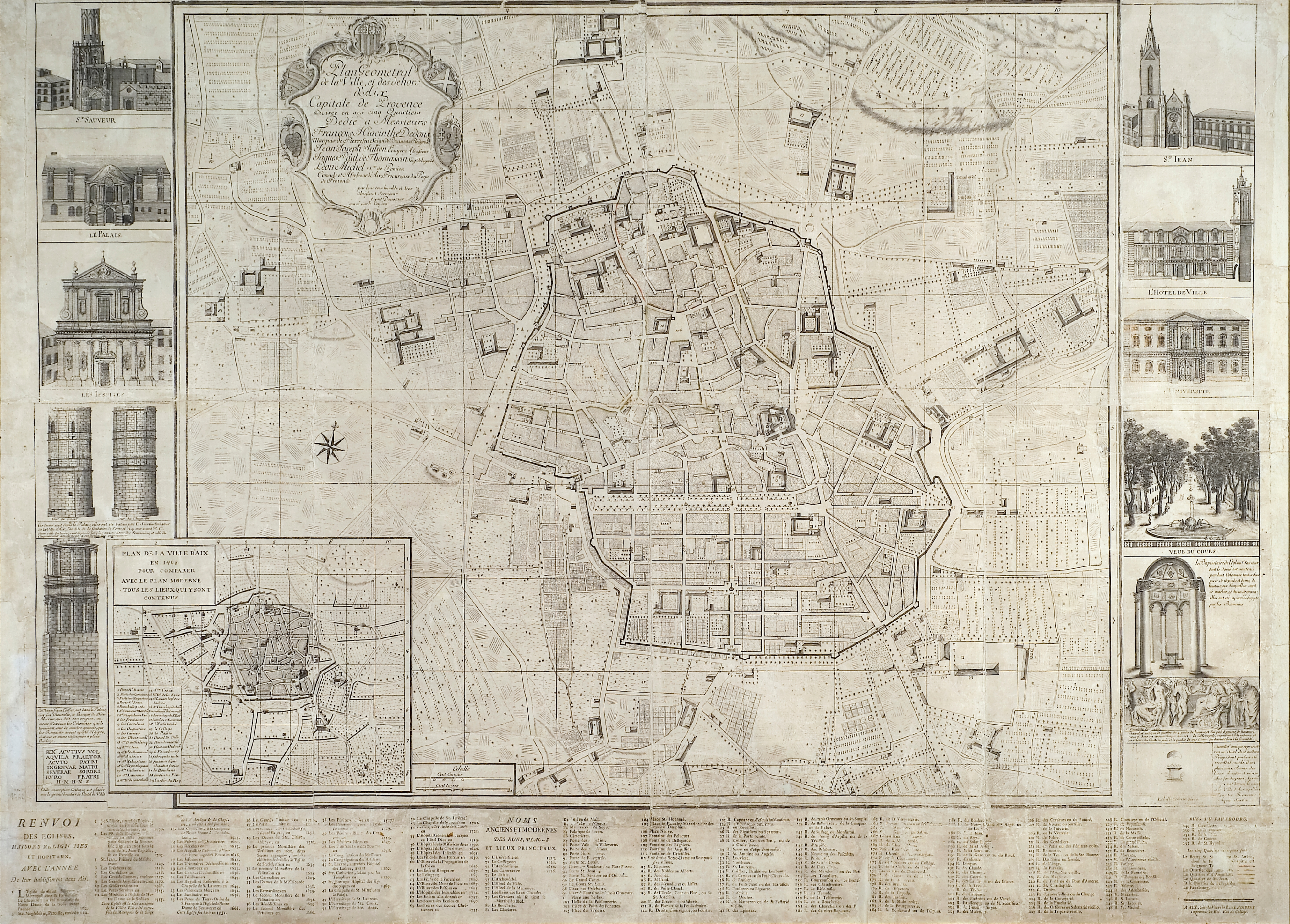 Historic map of Aix-en-Provence